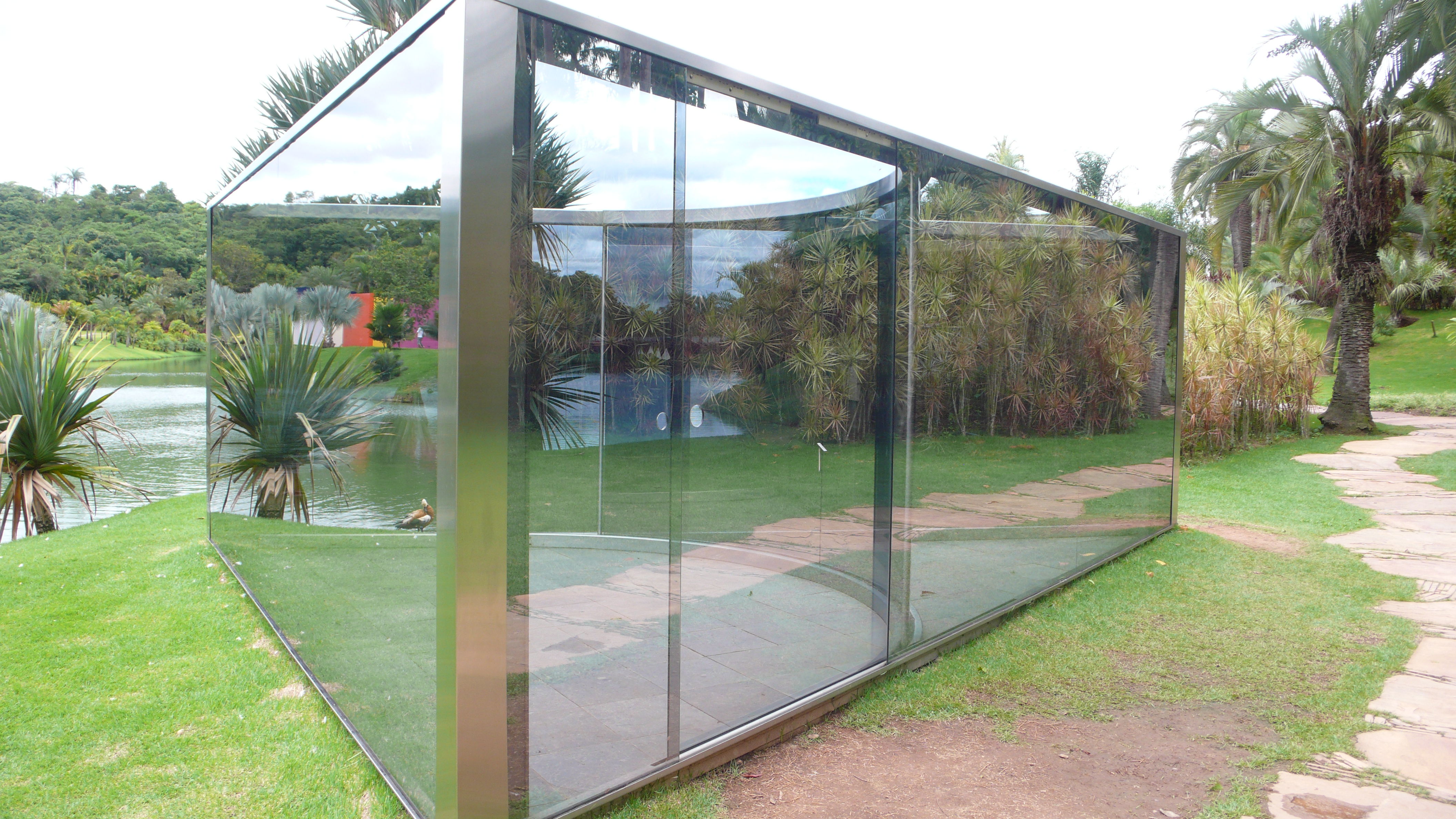 Sculpture "Bisected triangle" by Dan Graham at Instituto Cultural Inhotim in Brumadilho/Brazil